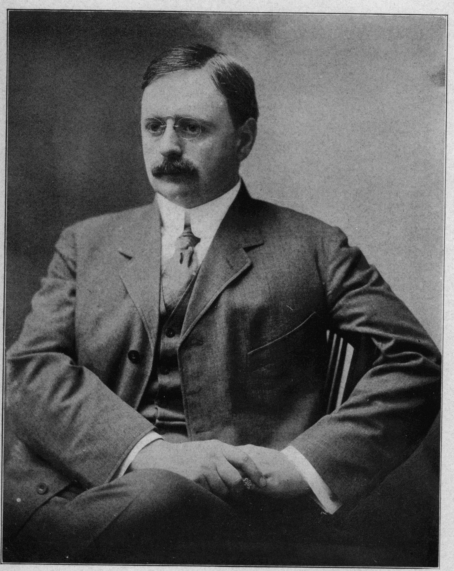 Elmer Ernest Southard